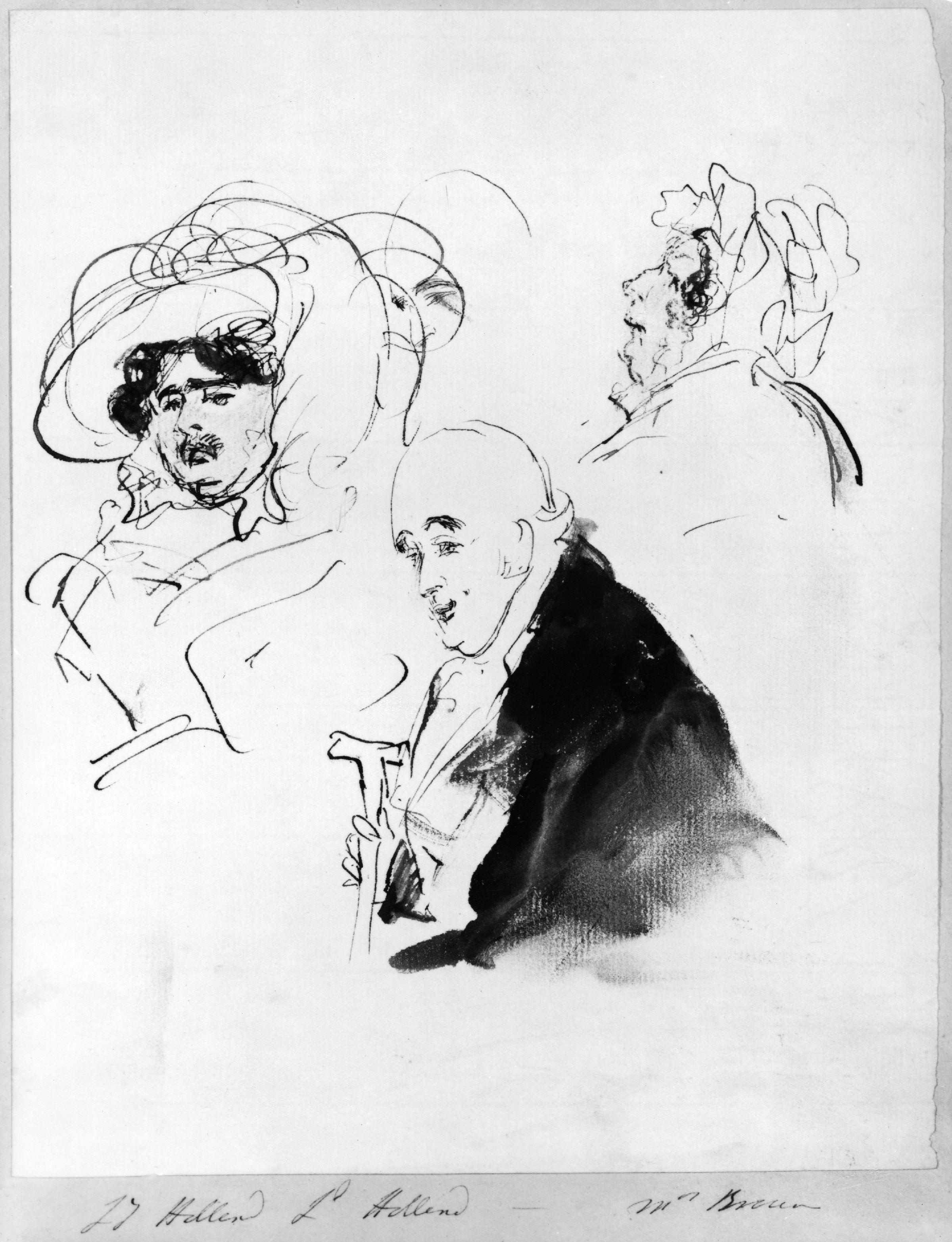 Elizabeth Vassall Fox, Lady Holland; Henry Richard Vassall Fox, 3rd Baron Holland; Mrs Brown, by Sir Edwin Henry Landseer (died 1873). All images in this batch have been confirmed as author died before 1939 according to the official death date listed by the NPG.